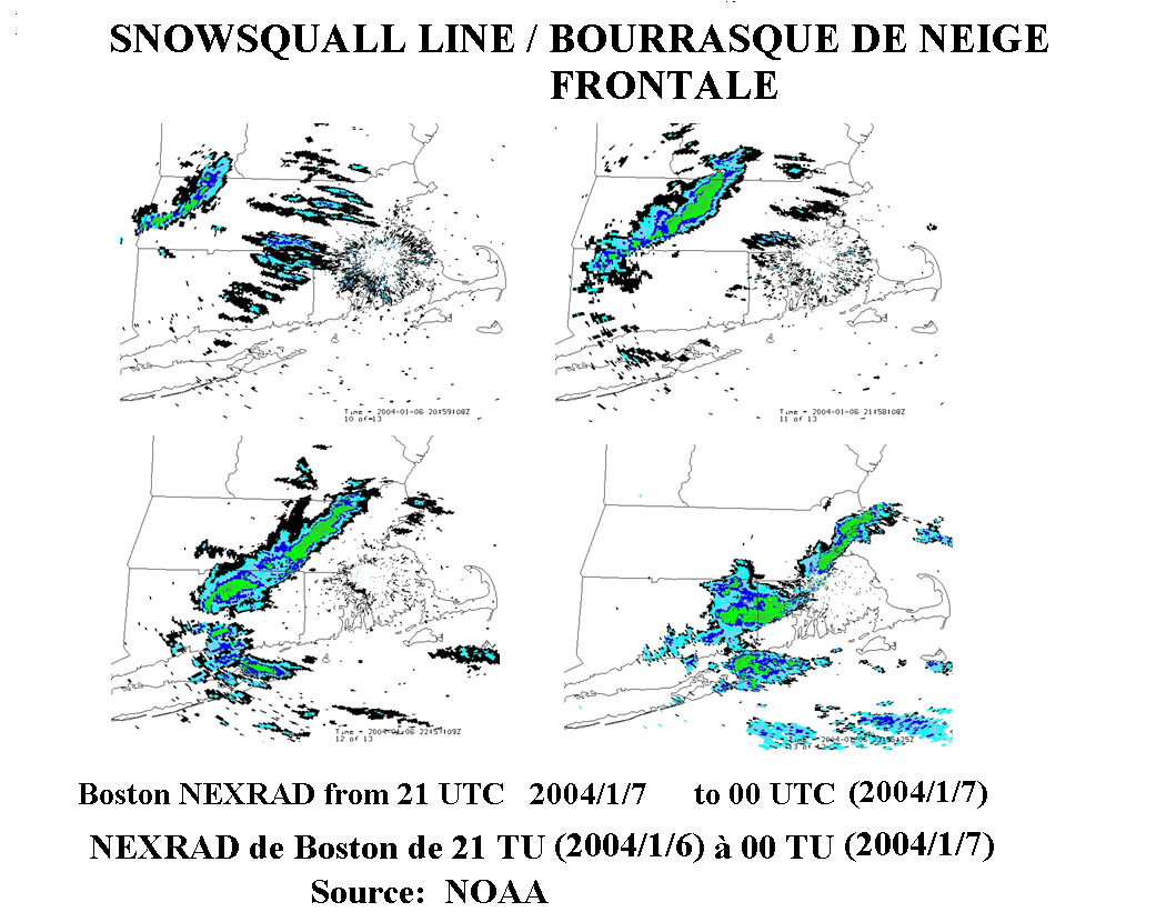 Radar echoes from a snowsqual line developping over Boston NEXRAD coverage area in January 2004.